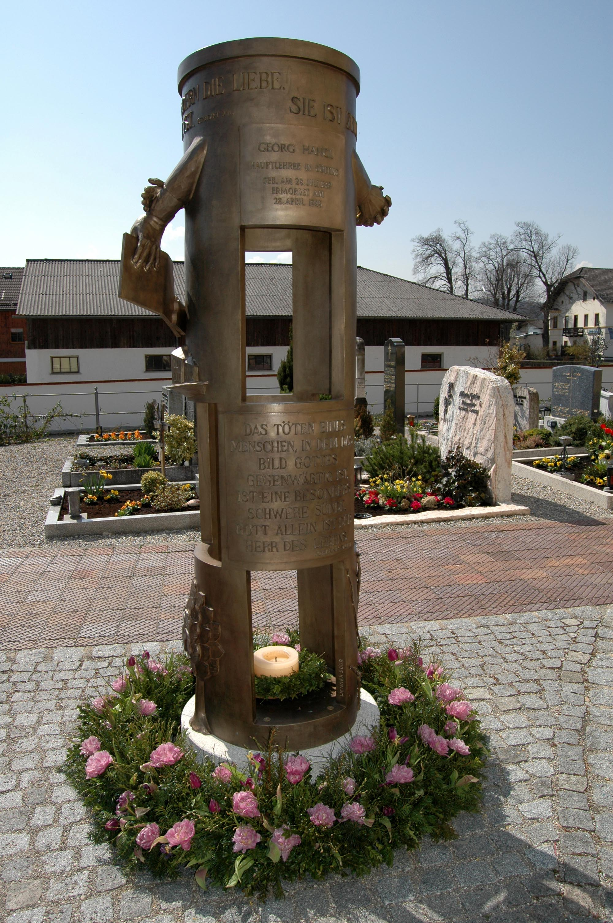 Grimm/Hangl Memorial Bruckmuehl/Germany